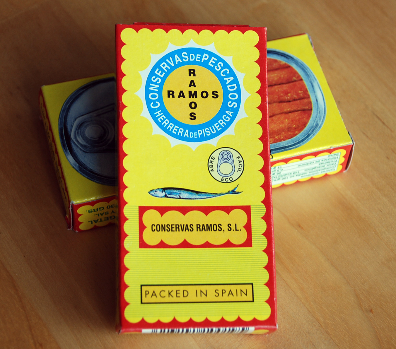 Economy and food in the province of Palencia: Anch canned in Herrera de Pisuerga (Palencia, Castille and León).